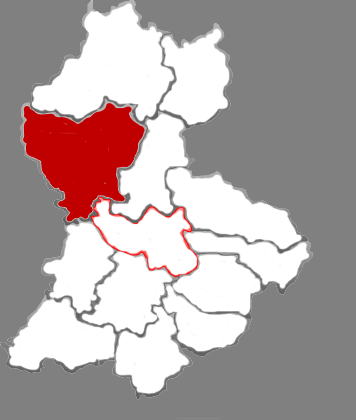 Location of Lin county in Lüliang City, China